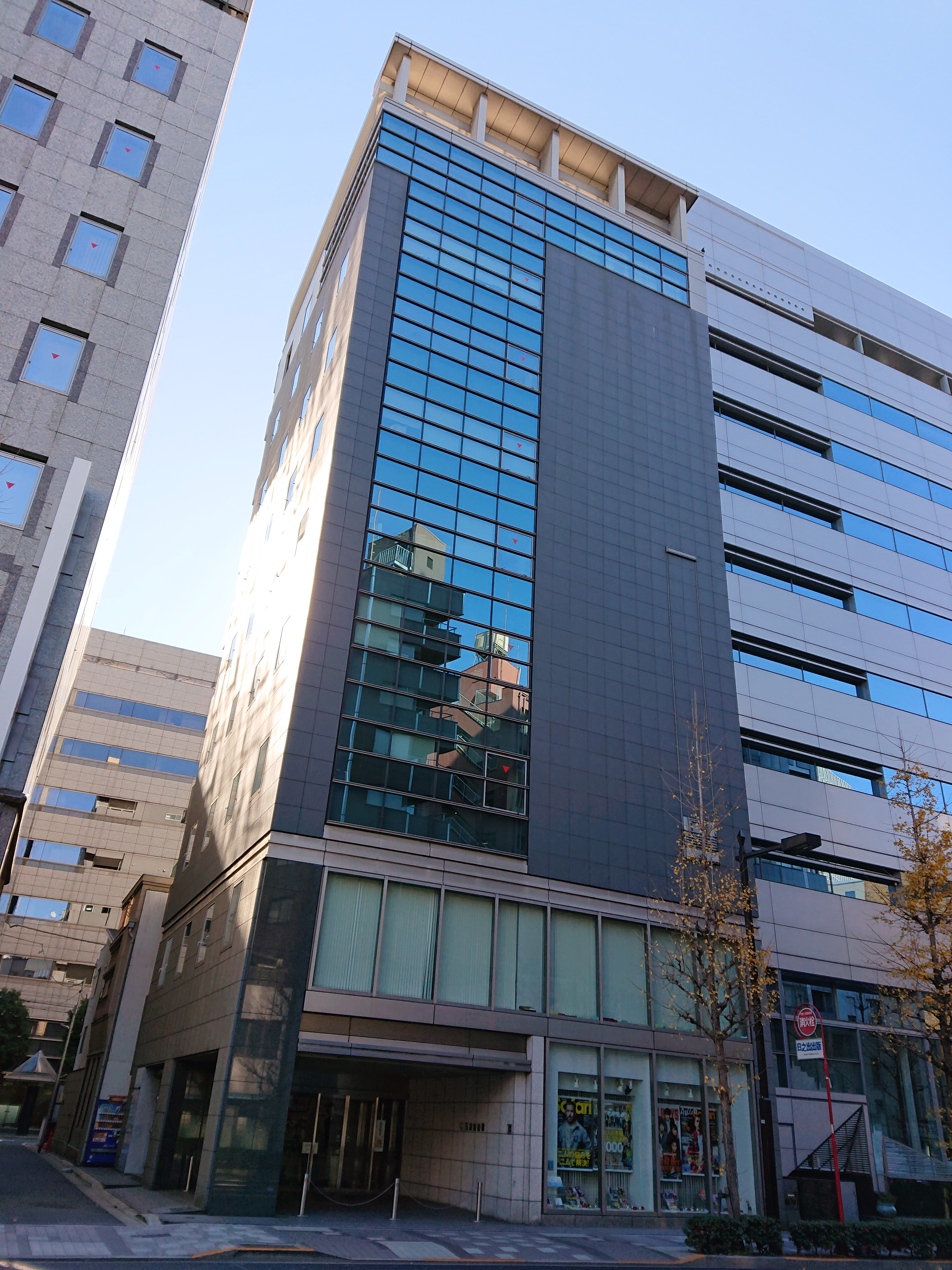 Hinode Publishing (日之出出版), located at 4-6-5 Hatchobori, Chuo, Tokyo, Japan